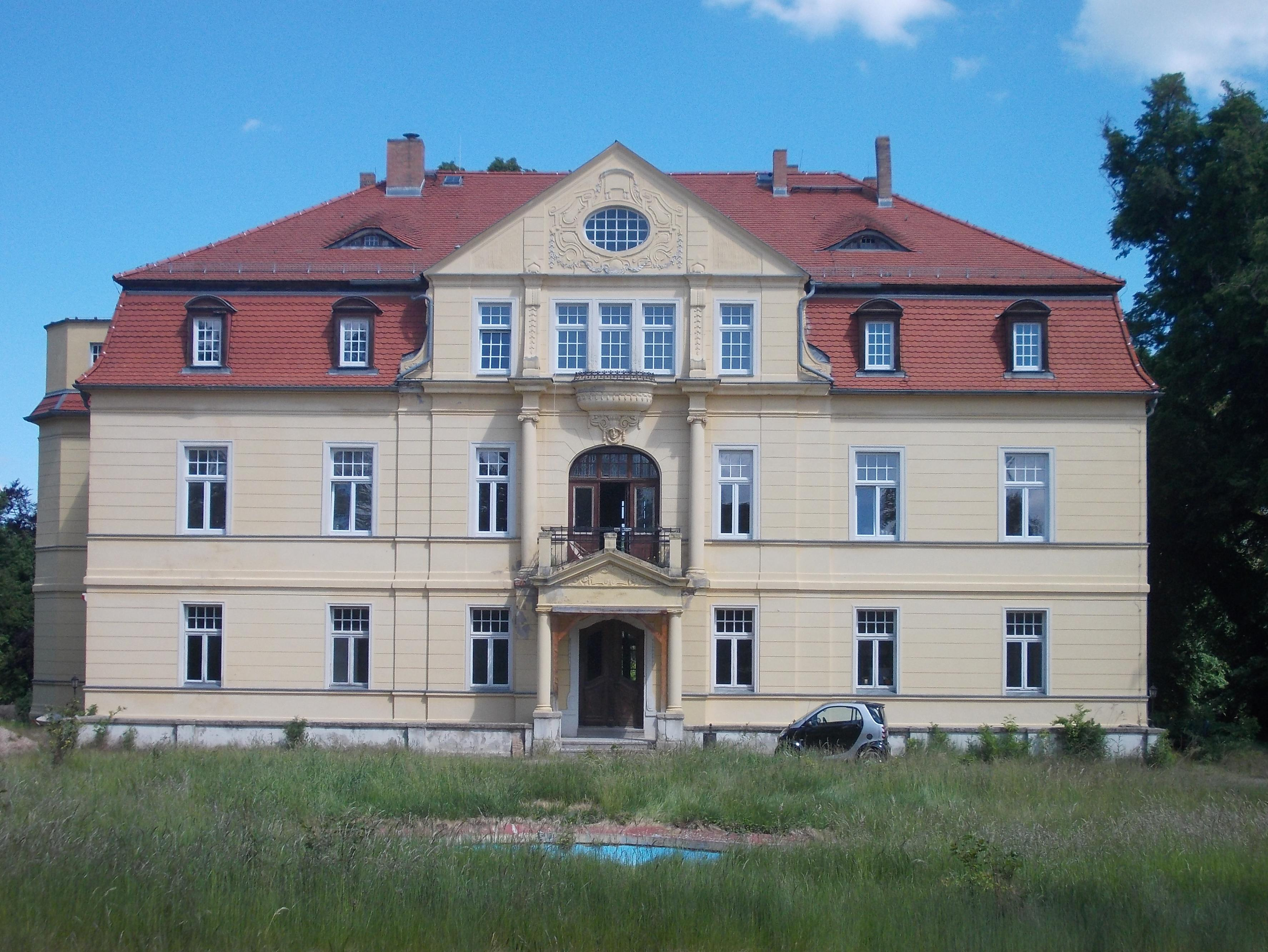 Krüger's Estate in Preusslitz (Bernburg, district: Salzlandkreis, Saxony-Anhalt), manor house